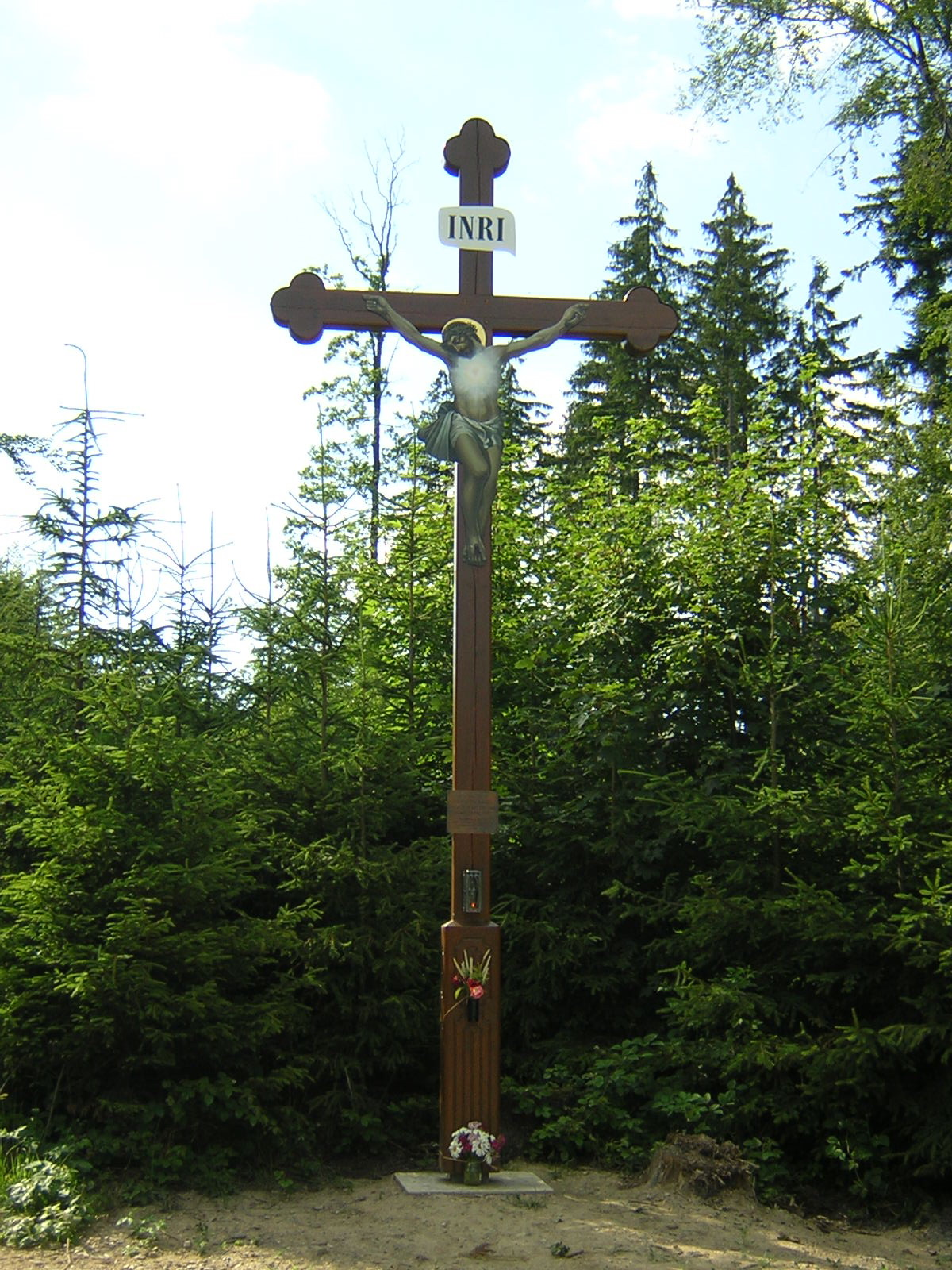 Cross at the crossroad near Požaha, Czechia.